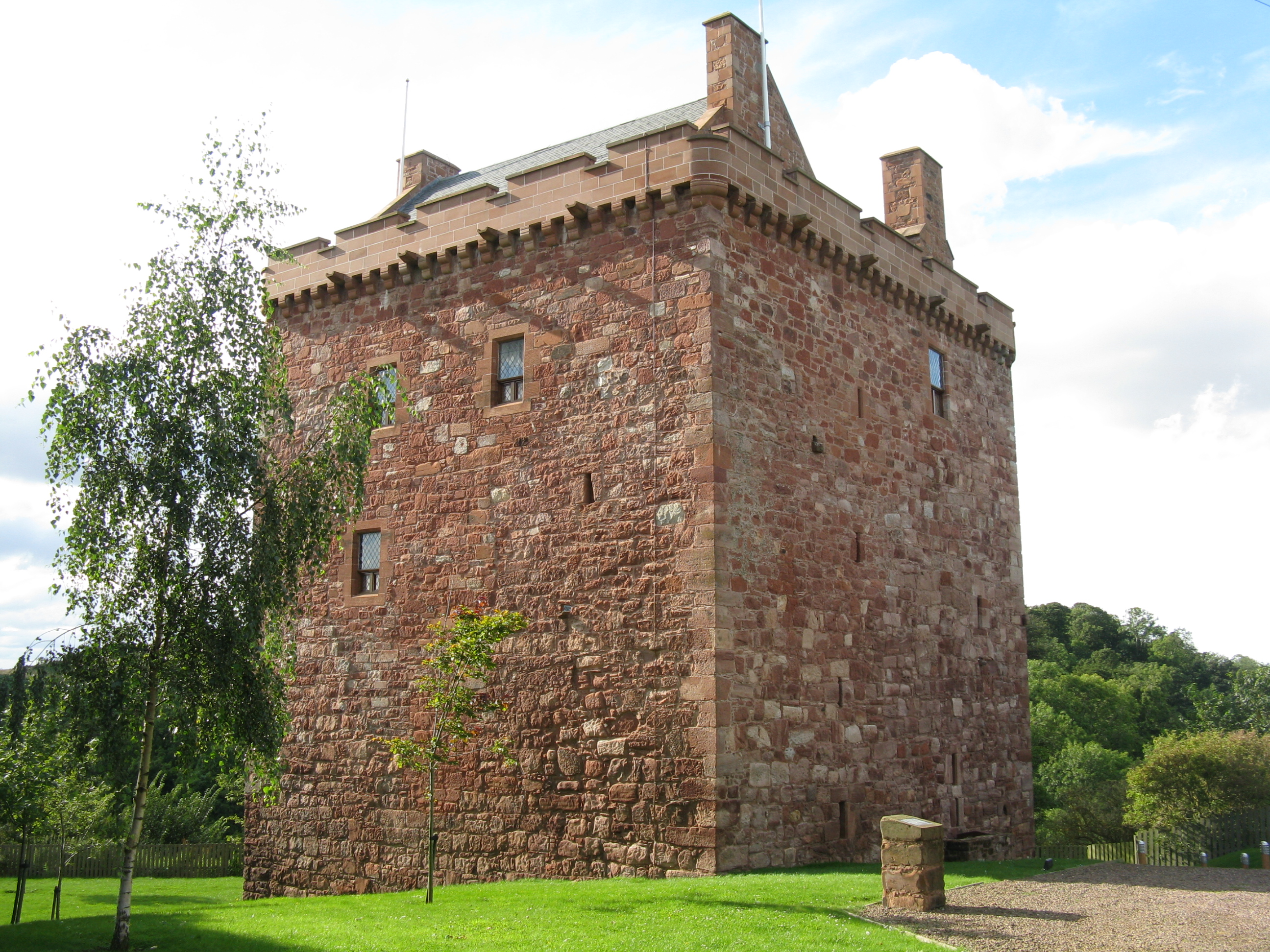 Stoneypath Tower - restoration complete